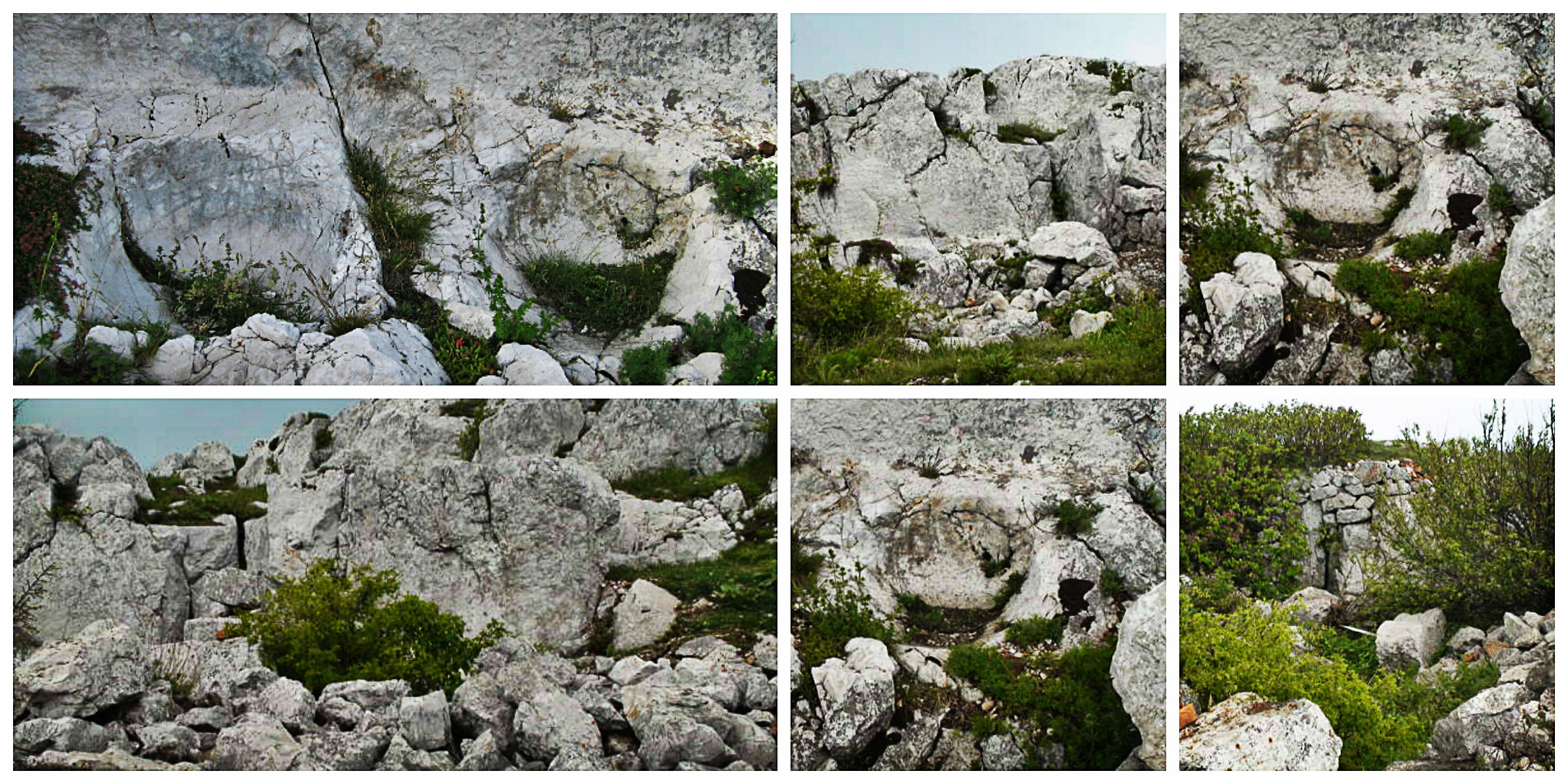 Sanctuary_Petrovski_krust_Dragoman_BG